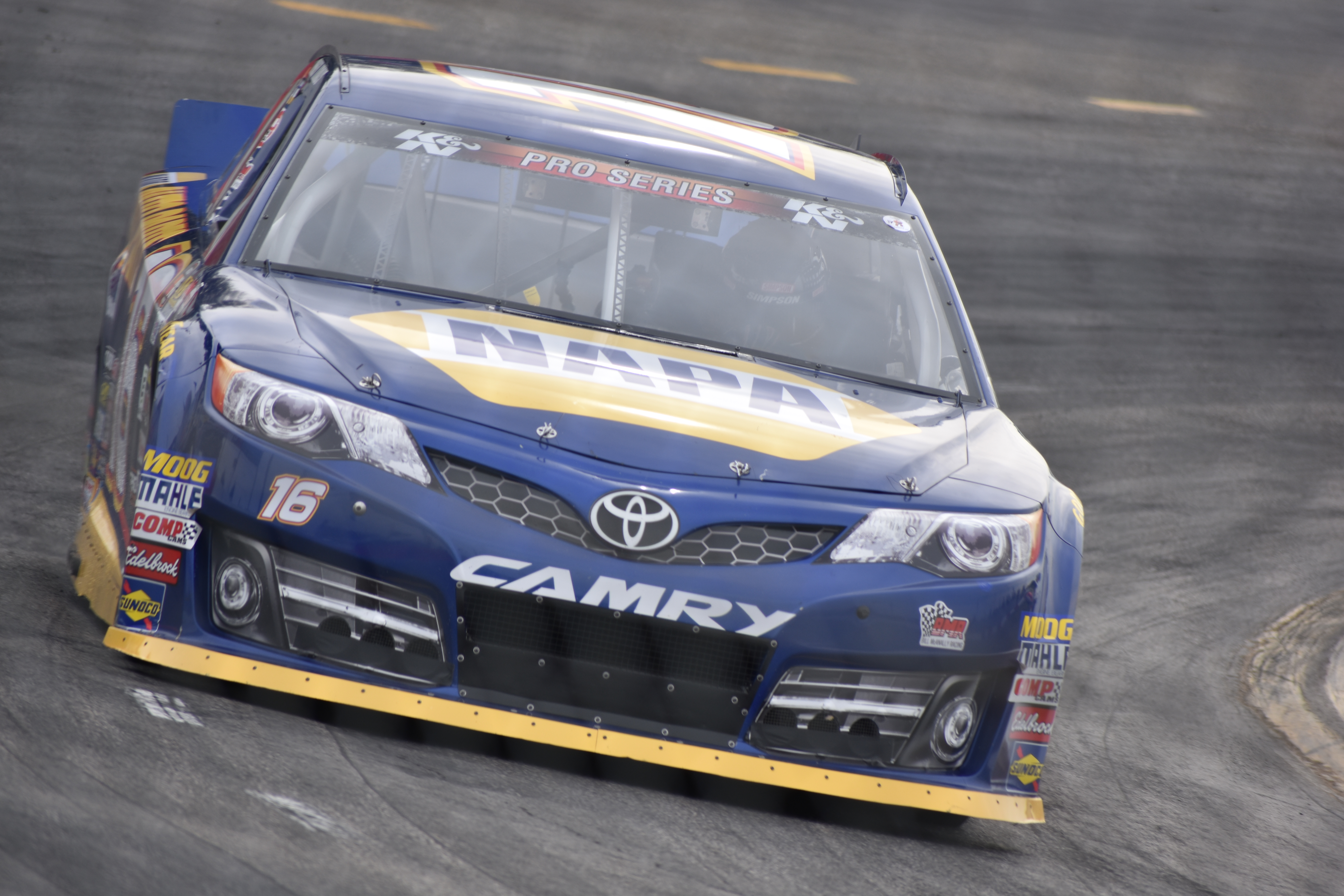 Kraus during qualifying at Meridian